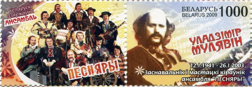 The stamp with Vladimir Mulavin